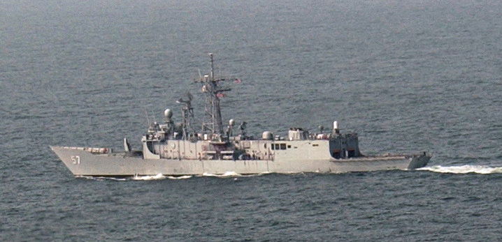 USS Rueben James along with Pakistan Navy Ship (PNS) Shahjahan and PNS Tippi Sultan are currently participating in Exercise Inspired Siren 2002